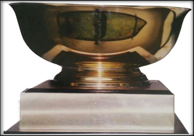 8 rrd para